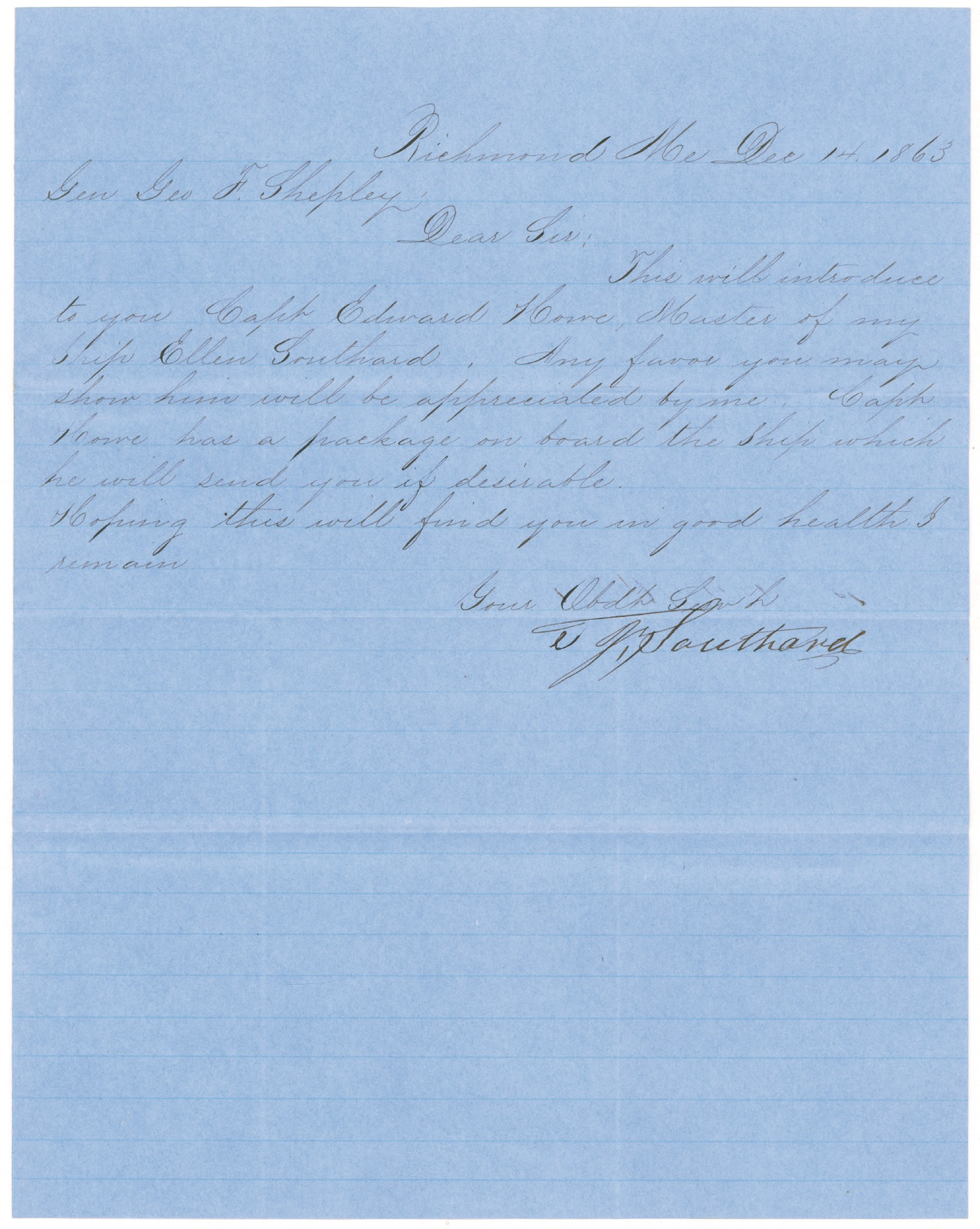 Richmond Me Dec 14. 1863 Gen Geo F. Shepley; Dear Sir: This will introduce to you Capt Edward Howe, Master of my Ship Ellen Southard. Any favor you may show him will be appreciated by me. Capt Howe has a package on board the Ship which he will send you if desirable. Hoping this will find you in good health I remain Your Obd’t Serv’t T.J. Southard